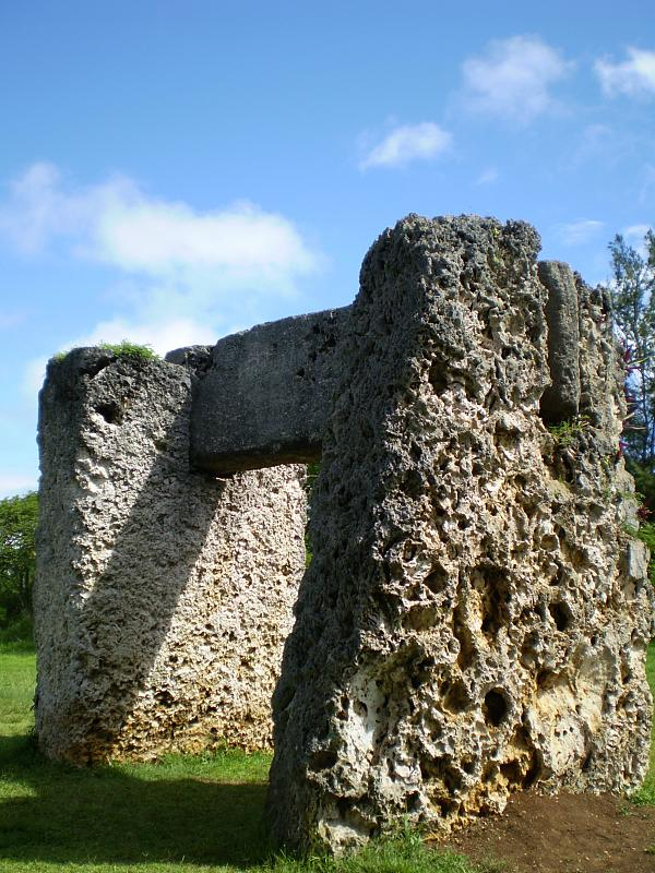 Haʻamonga ʻa Maui, only made from coral